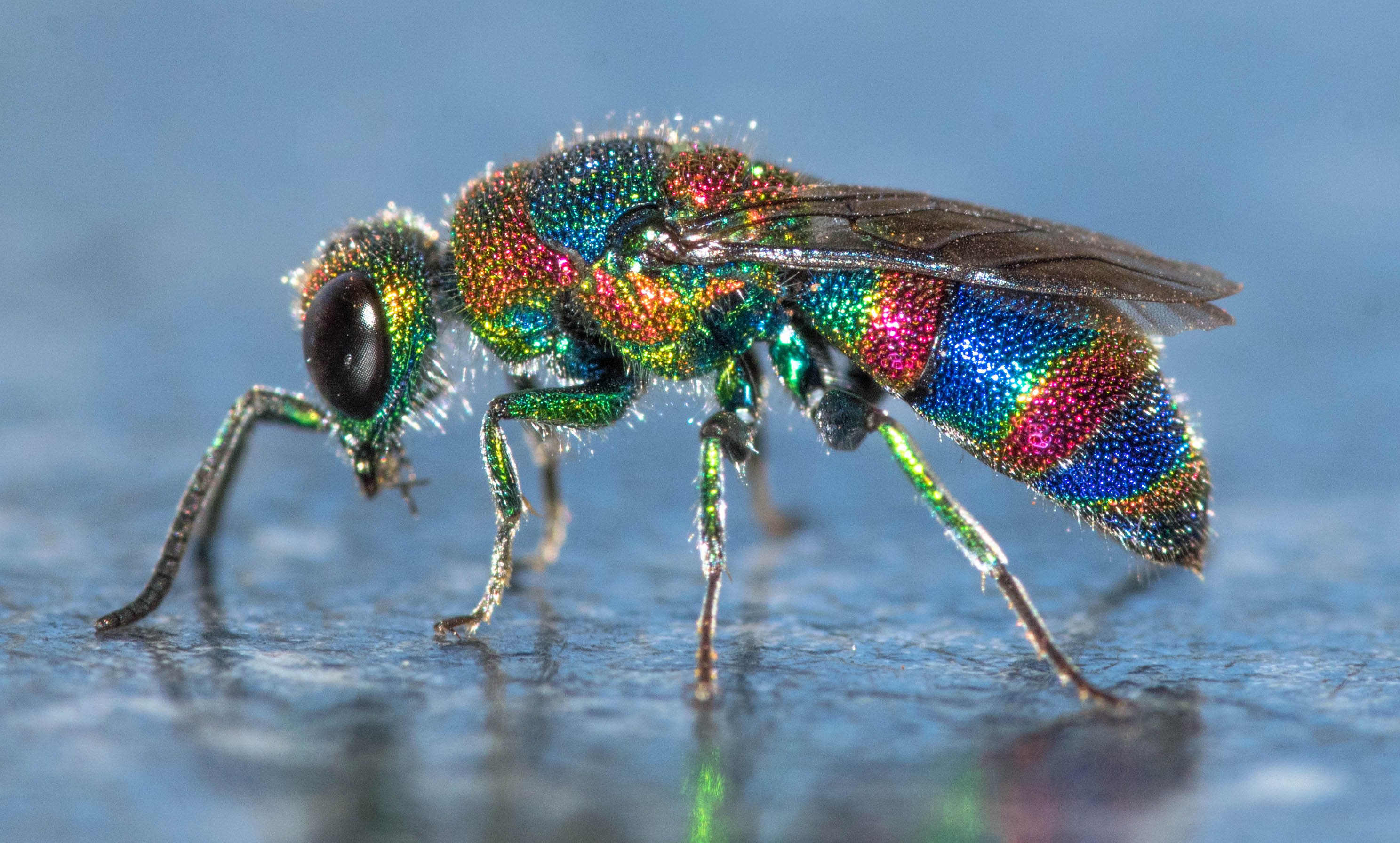 A multicoloured cuckoo wasp (family Chrysididae; Chrysis concinna) found in Bloemfontein, South Africa.